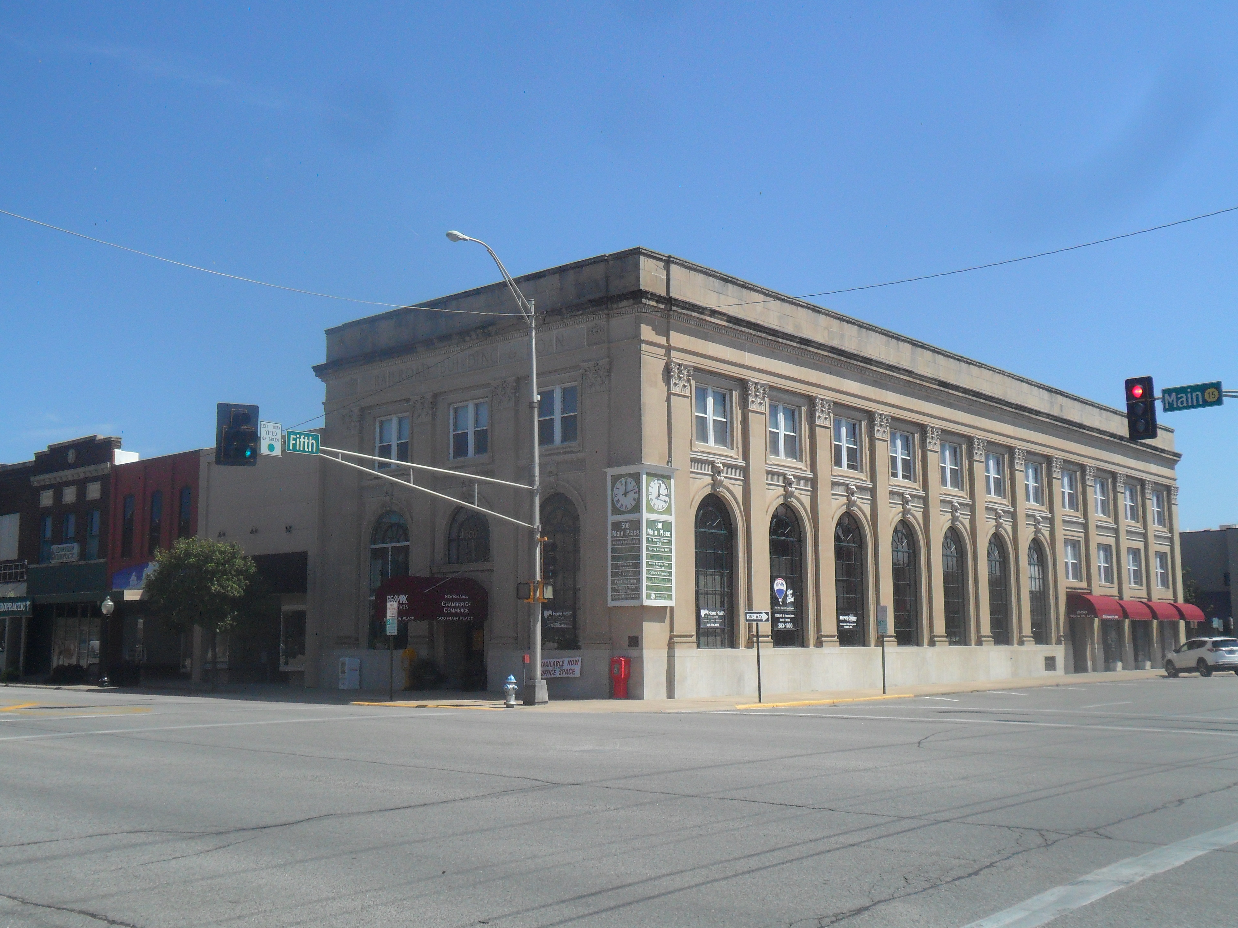 Newton, Kansas Railroad Savings and Loan Building. National Register of Historic Places #82002662 Located at 500 Main Place, Newton, KS. 8/25/18